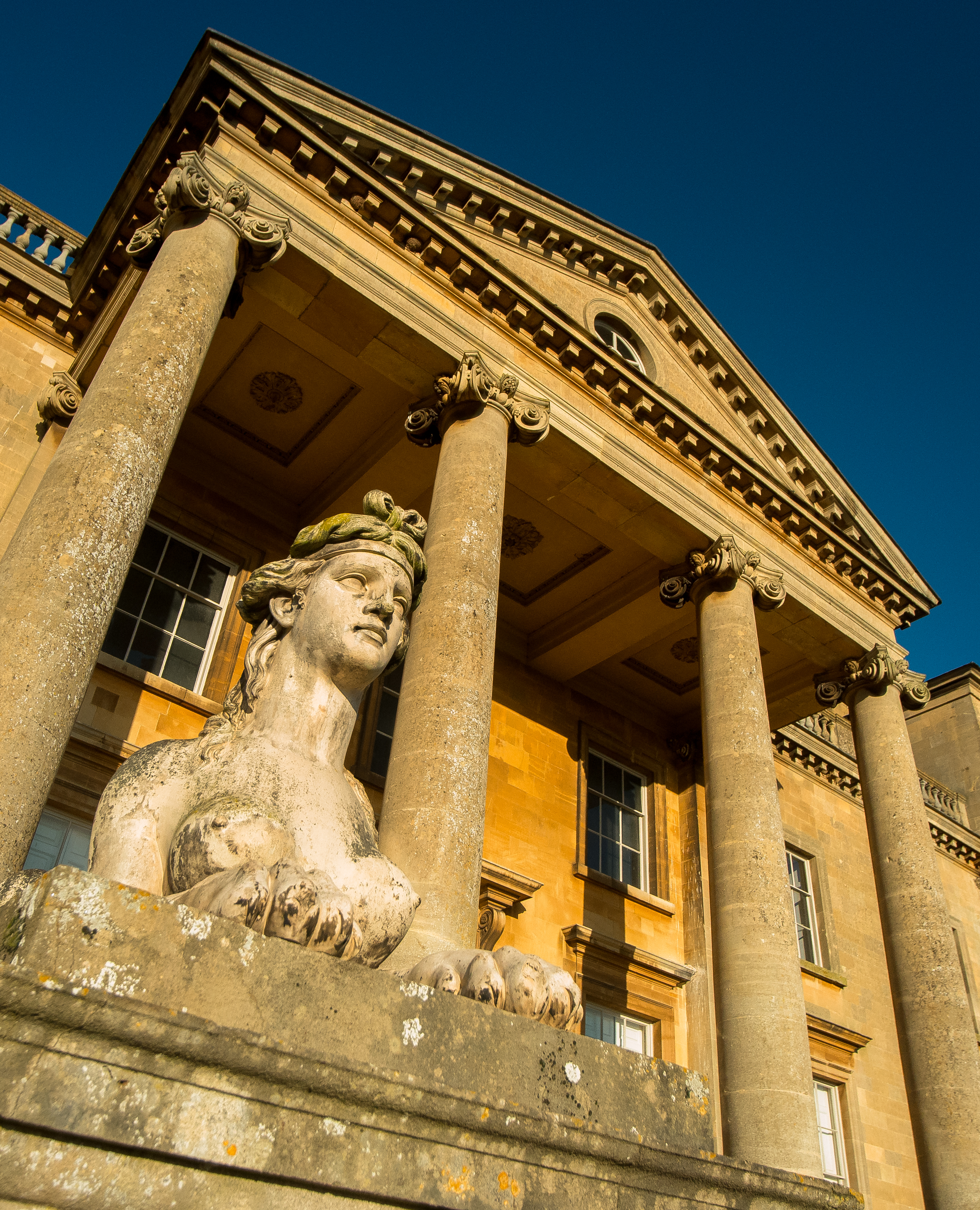 Croome South Portico, Worcestershire, UK, 2016